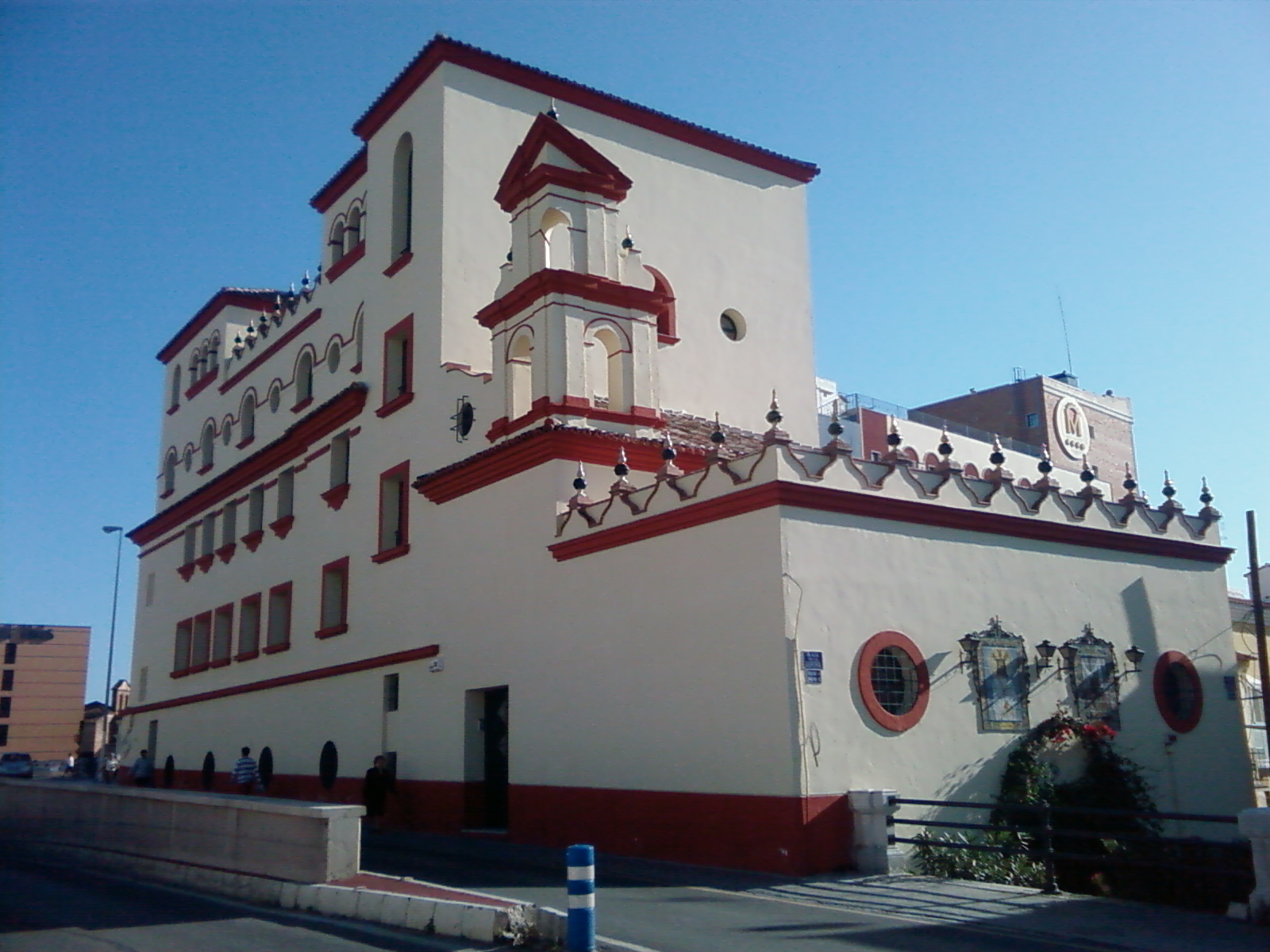 Former convent of the Aurora María, Málaga, Spain